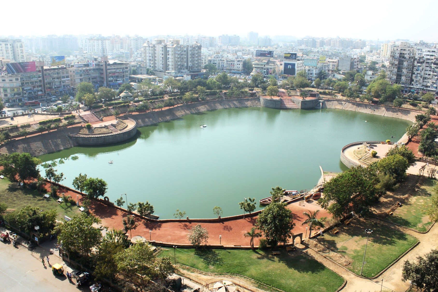 VASTRAPUR LAKE2 AHMEDABAD -BY GUFRAN KHAN